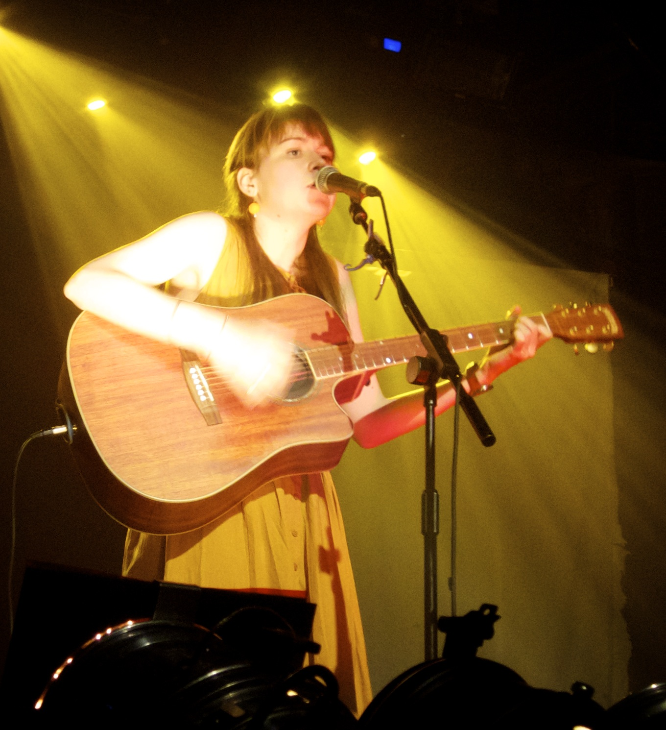 Alessi's Ark performing at Heaven, Nov 2011. Creative commons license. Author: Aurelien Guichard.